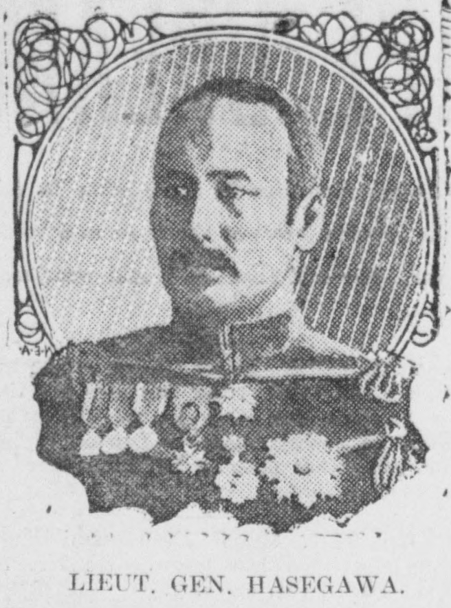 in 1904, Lieutenant-General Baron Hasegawa was a commander in the Imperial Guard of Japan.